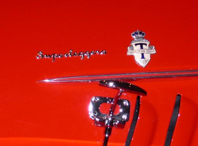 1938 Alfa Romeo 8C 2900 Mille Miglia From the Ralph Lauren collection on display at the Boston Museum of Fine Arts. Photo taken in 2005. Source: Photo by User:Sfoskett